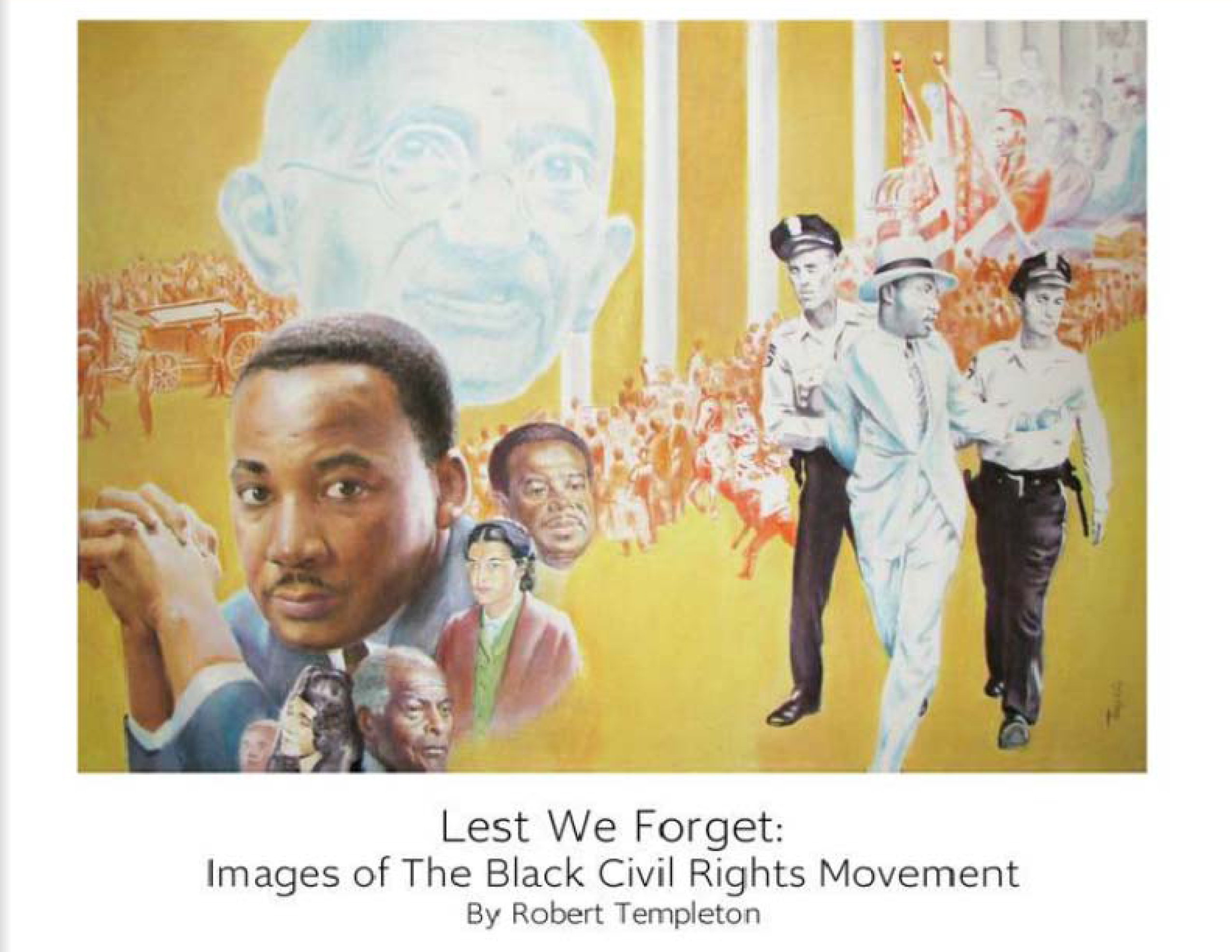 Portrait by the artist Robert Templeton to showcase his Lest We Forget - Images of the Black Civil Rights exhibit